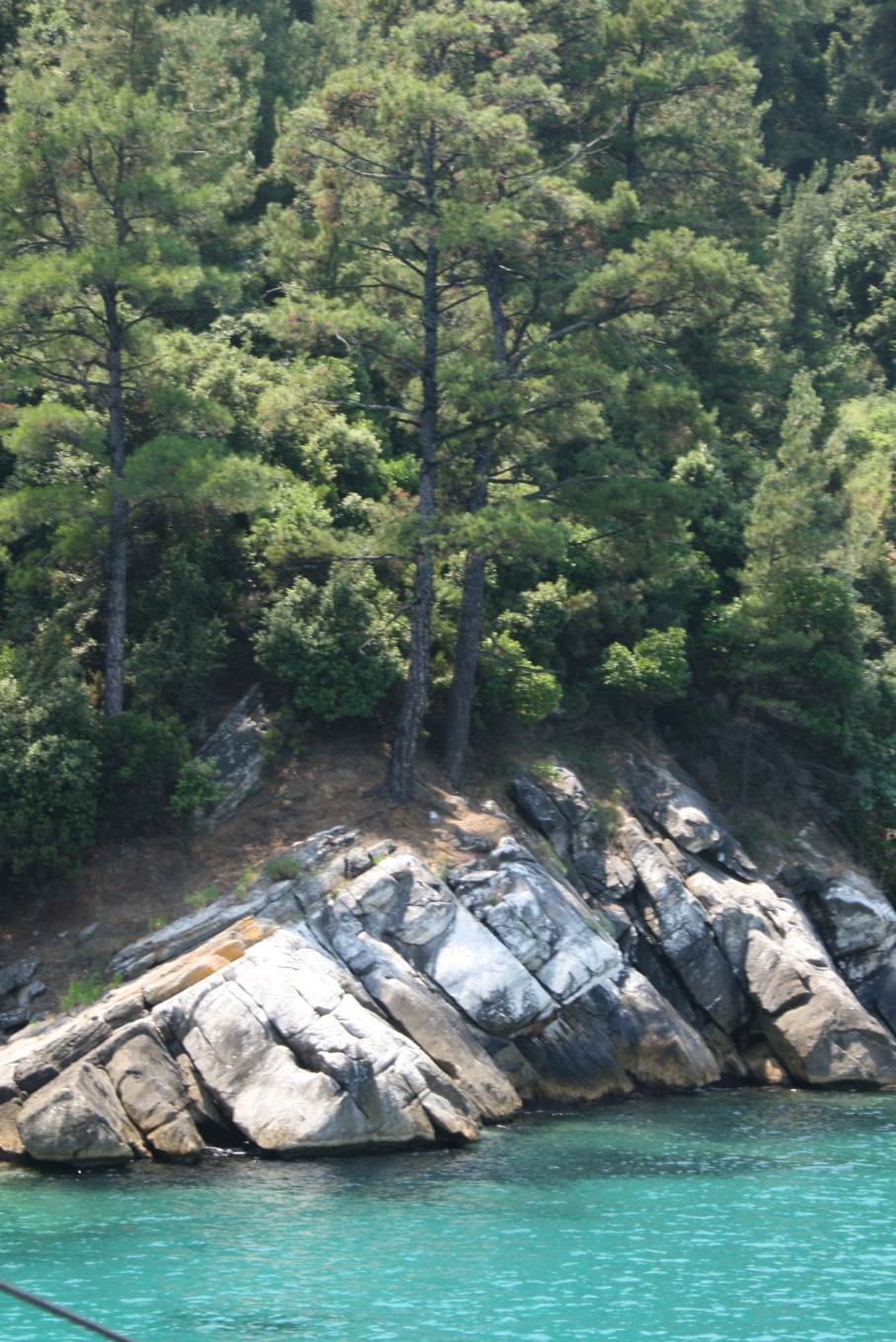 Coastal Pinus brutia forest on the east coast of Thasos